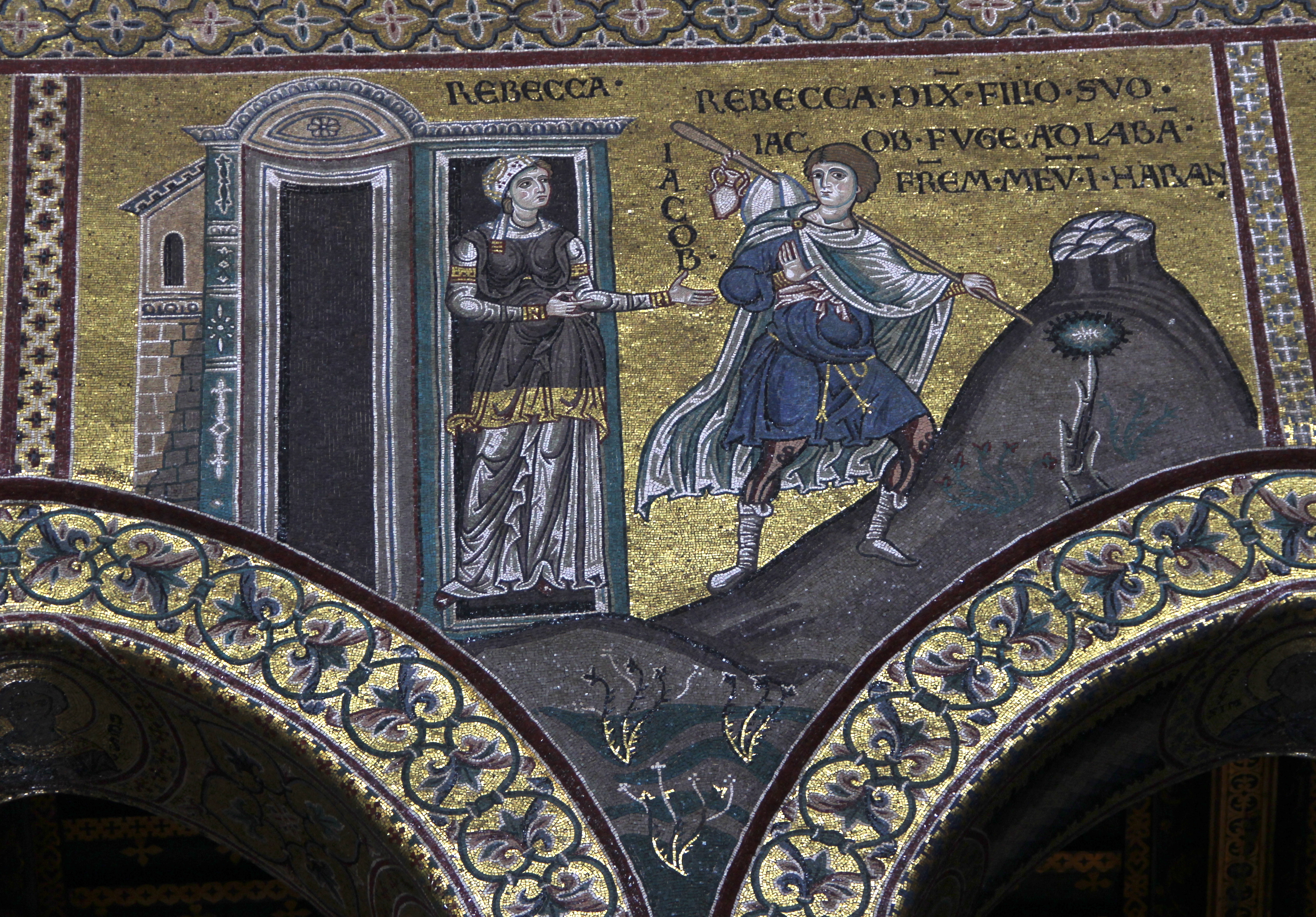 Rebecca tells her son Jacob "Flee at once to my brother Laban in Harran." (Genesis 27:43)